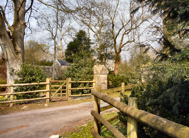 Entrance to Pwllywrach Home of the Prichard family.